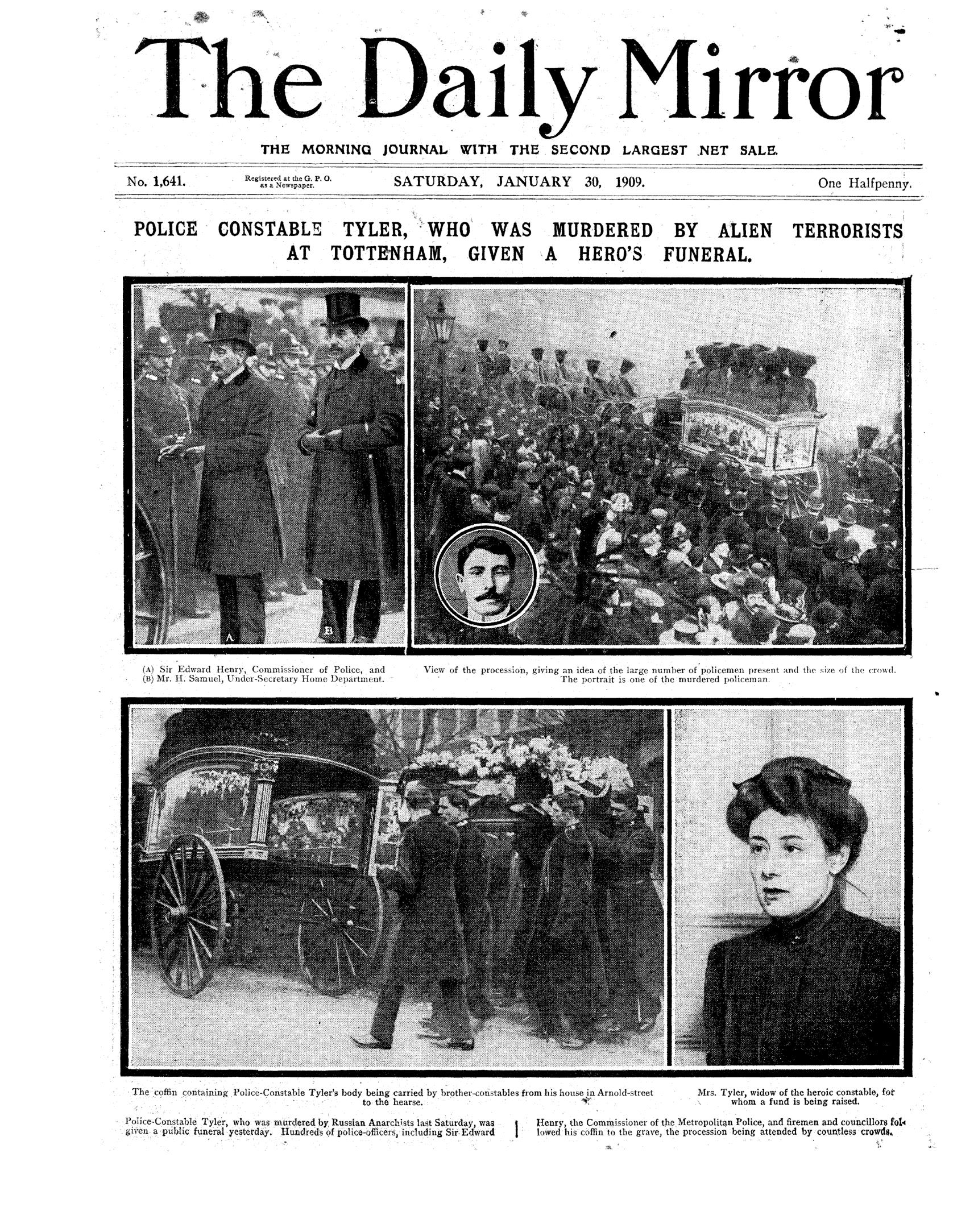 Front page of The Daily Mirror, 30 January 1909, showing the funeral of the policeman filled in the Tottenham outrage